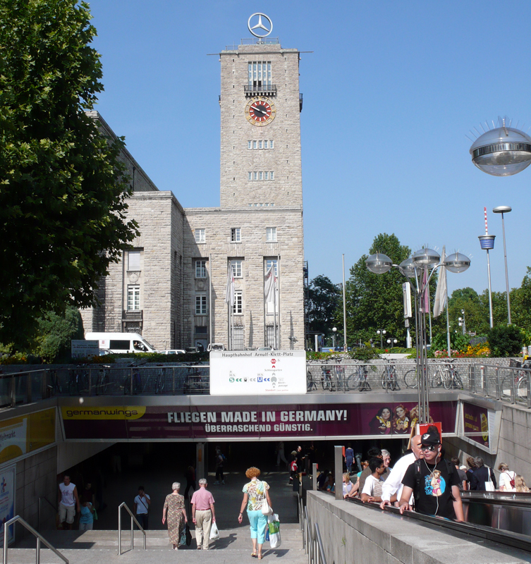 Stuttgart main train station